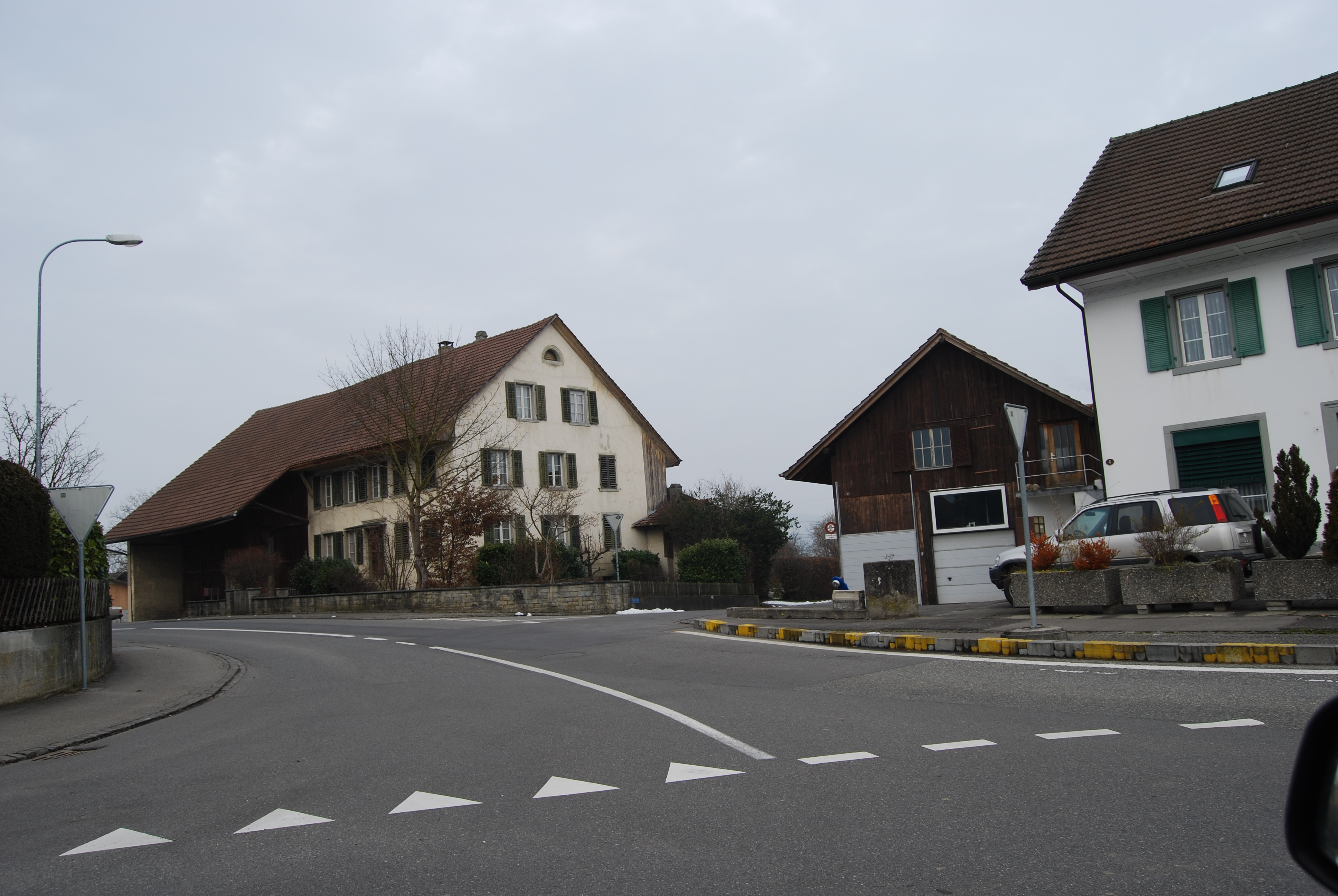 Dintikon, canton of Aargau, SwitzerlandEsperanto: Dintikon, Kantono Argovio, Svislando